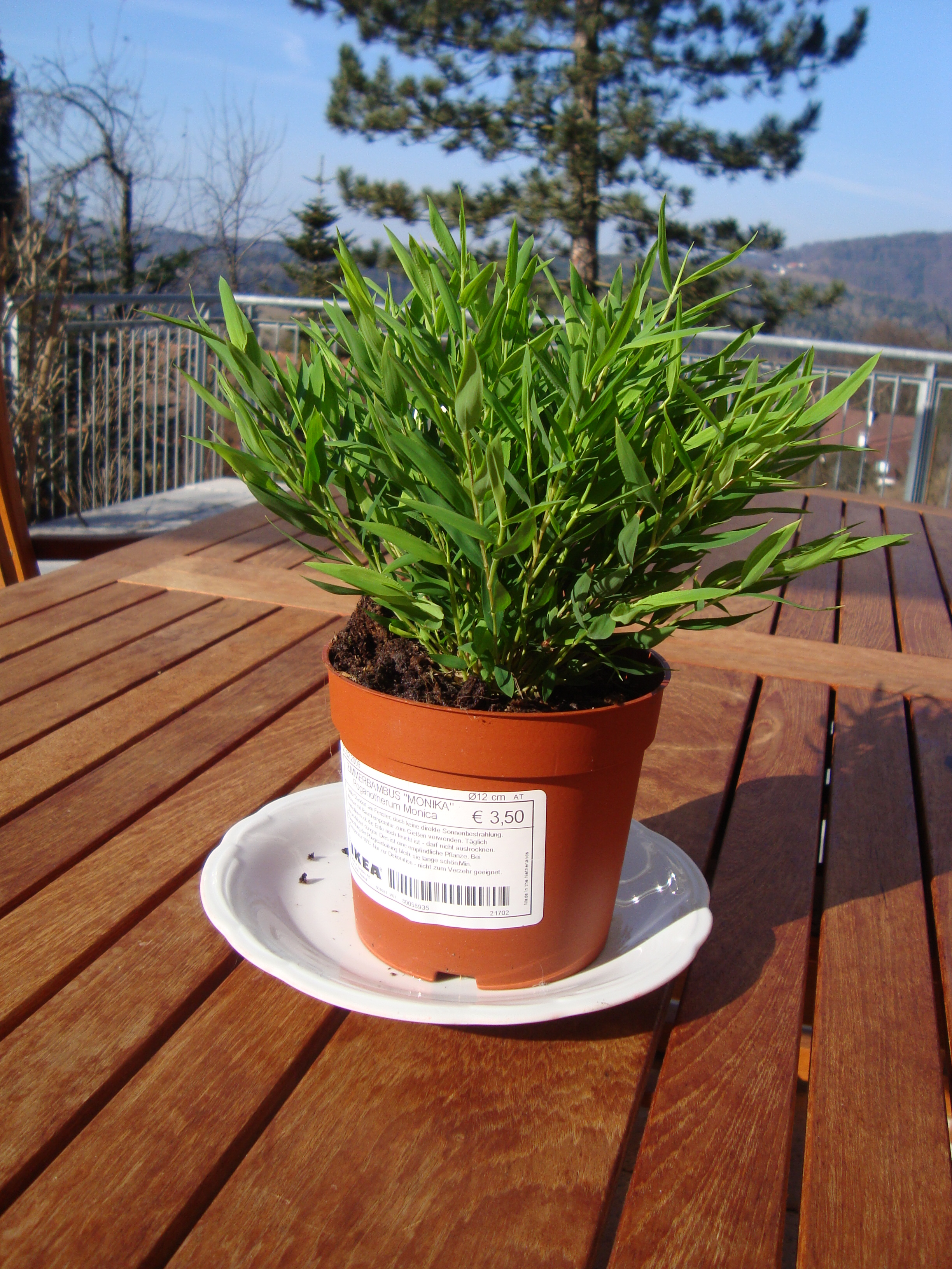 Pogonatherum paniceum